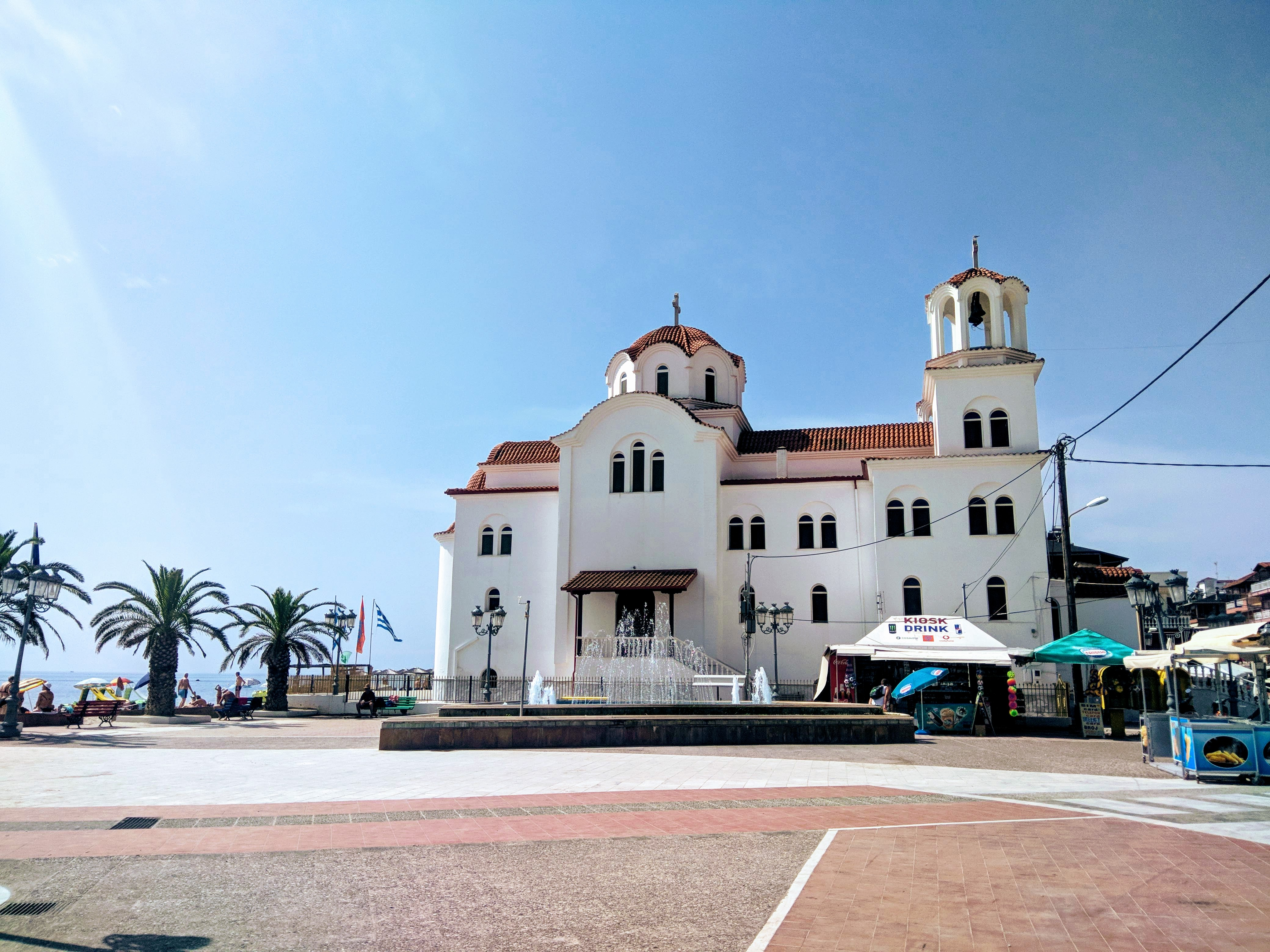 St. Paraskevi Church Paralia Katerinis